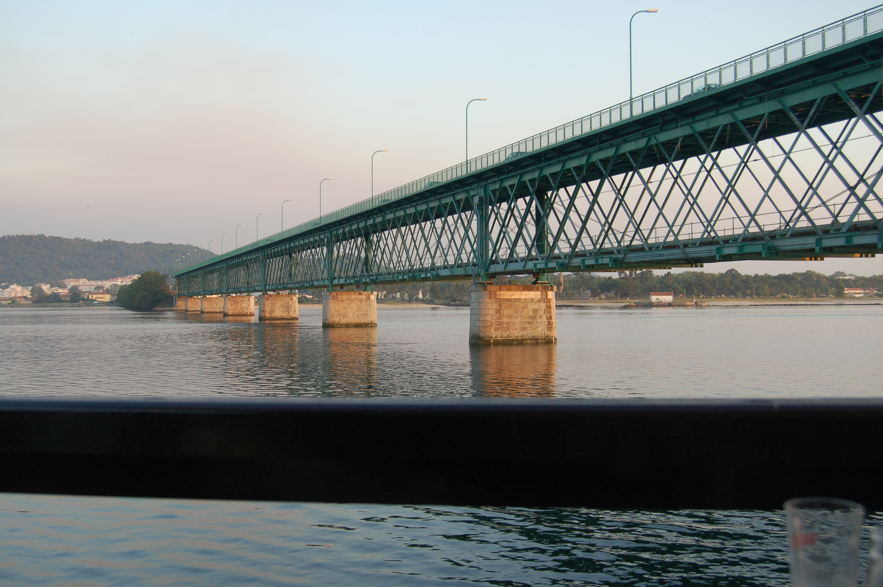 Eiffel bridge of the Minho railway over river Lima close to the city of Viana do Castelo; Portugal This file was uploaded for Wiki Loves Monuments in Portugal with the unique identifier 97000442.